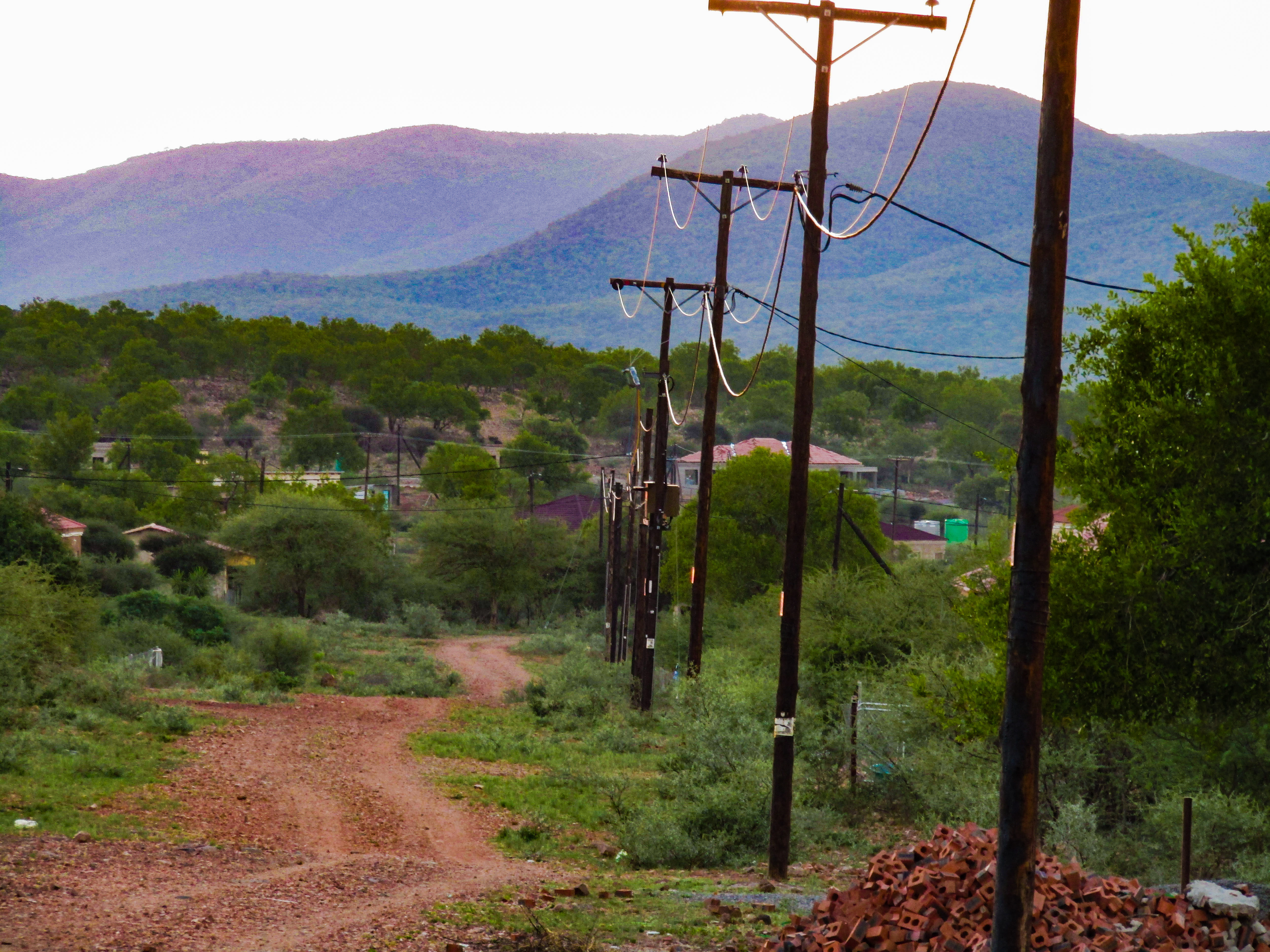 One of the off roads in Ramotswa, used as an alternative road on wet days because it is on high ground. Convenient and helpful for cars that cannot handle dirt. This is an image with the theme "Africa on the Move or Transport" from: Botswana